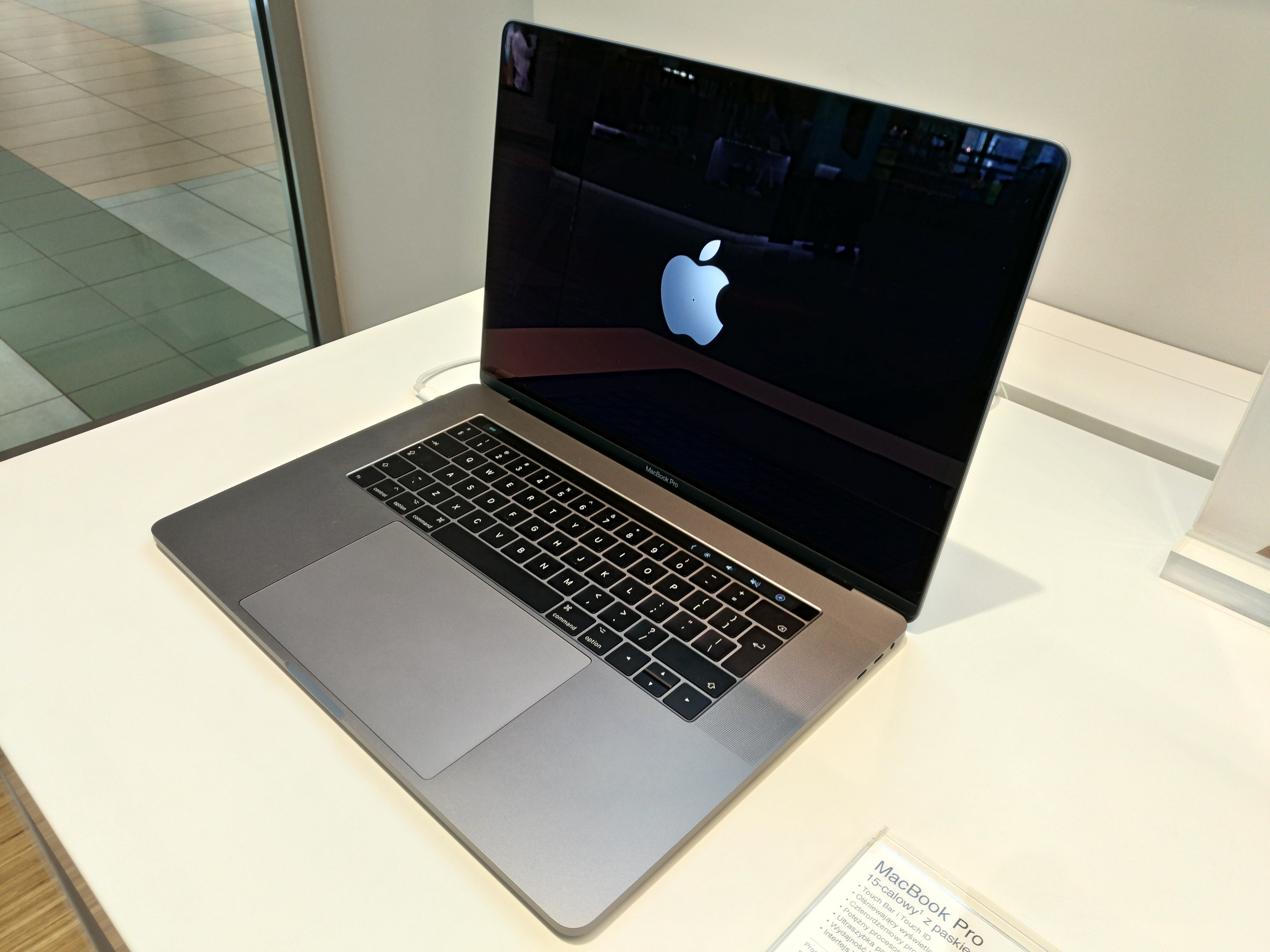 MacBook Pro 15 inch (2017) Touch Bar